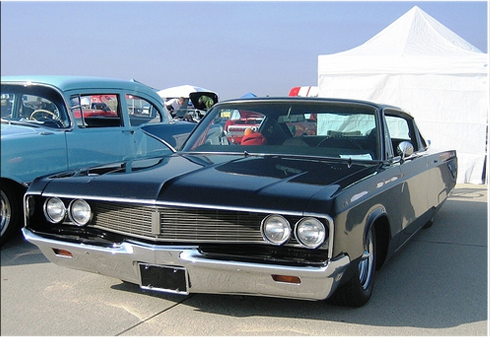 1968 Chrysler Newport